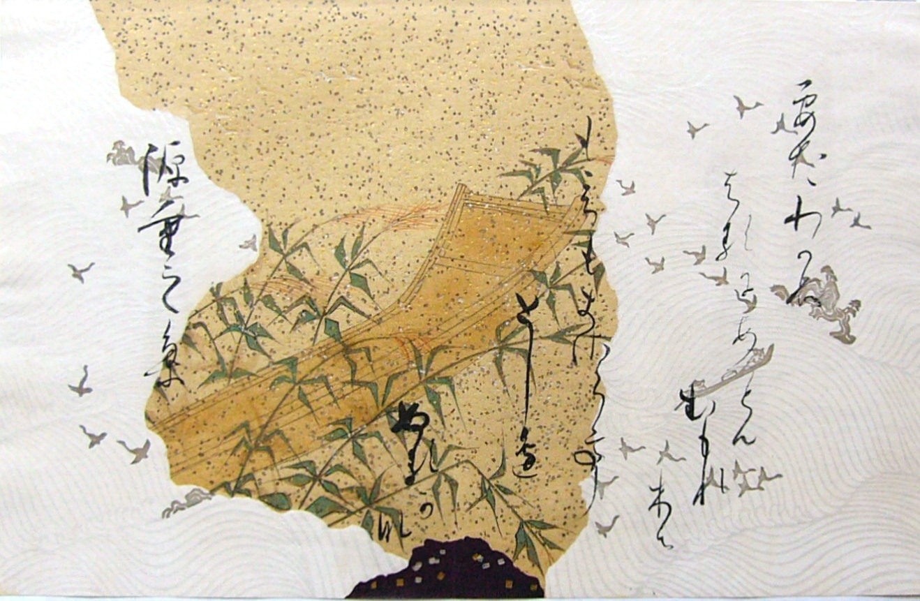 Two pages of the collected poems of Minamoto-no-SHIGEYUKI(?-ACE 1000). 20cm height, 32cm wide. Silver, Gold, Colour, and ink on ornamented paper. One of the Collection of the works of thirty six master poets in the NISHI-HONGANJI, Kyoto. Most luxurious illuminated manuscript books survived from ancient Japan.